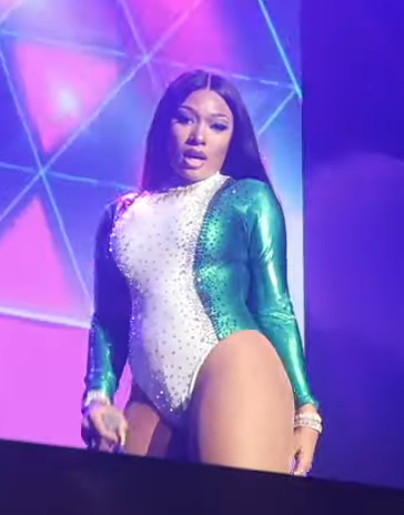 Megan Thee Stallion performing in Lagos in 2019